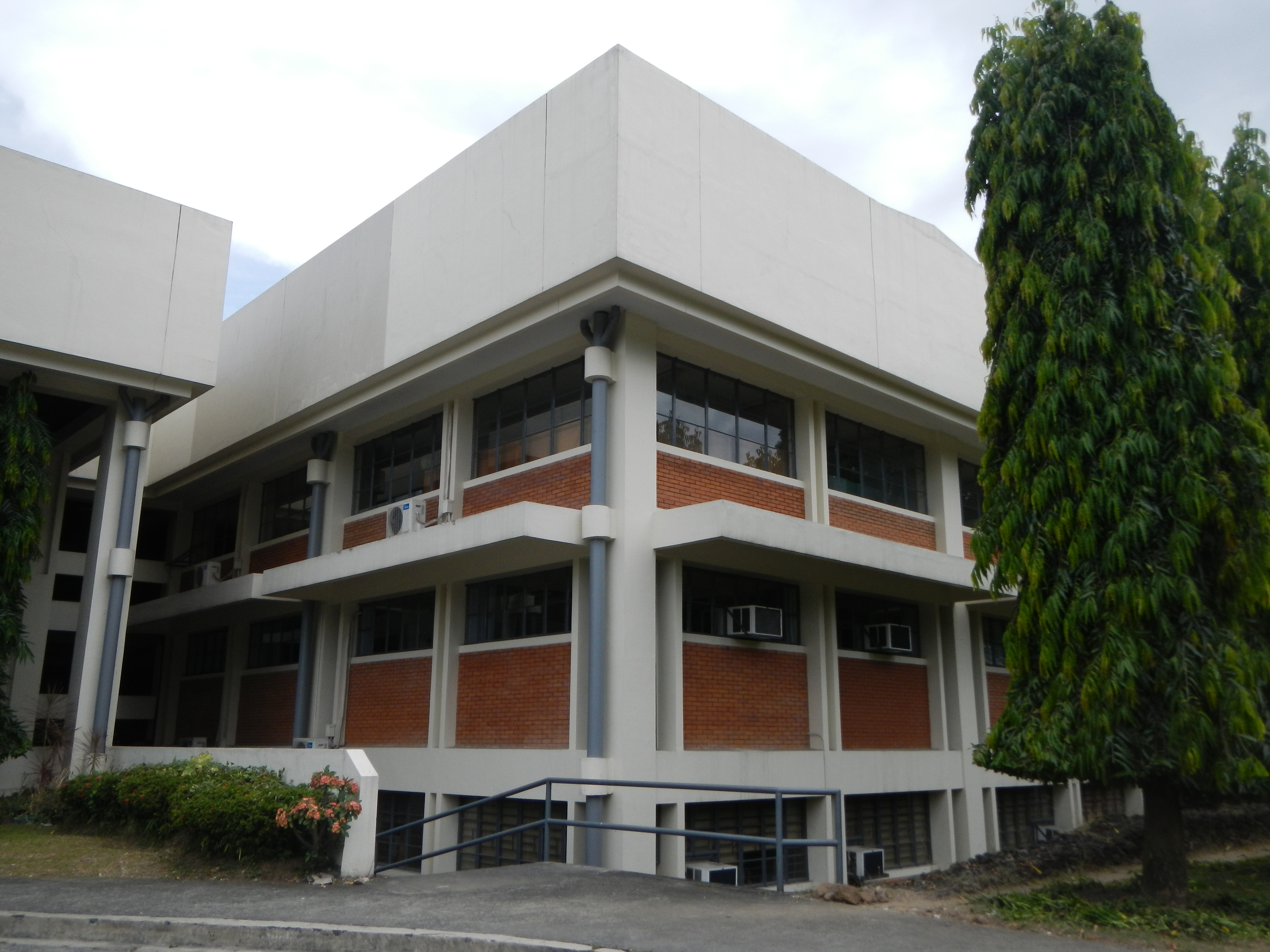 The National Institute of Geological Sciences of the University of the Philippines Diliman College of Science in the National Science Complex